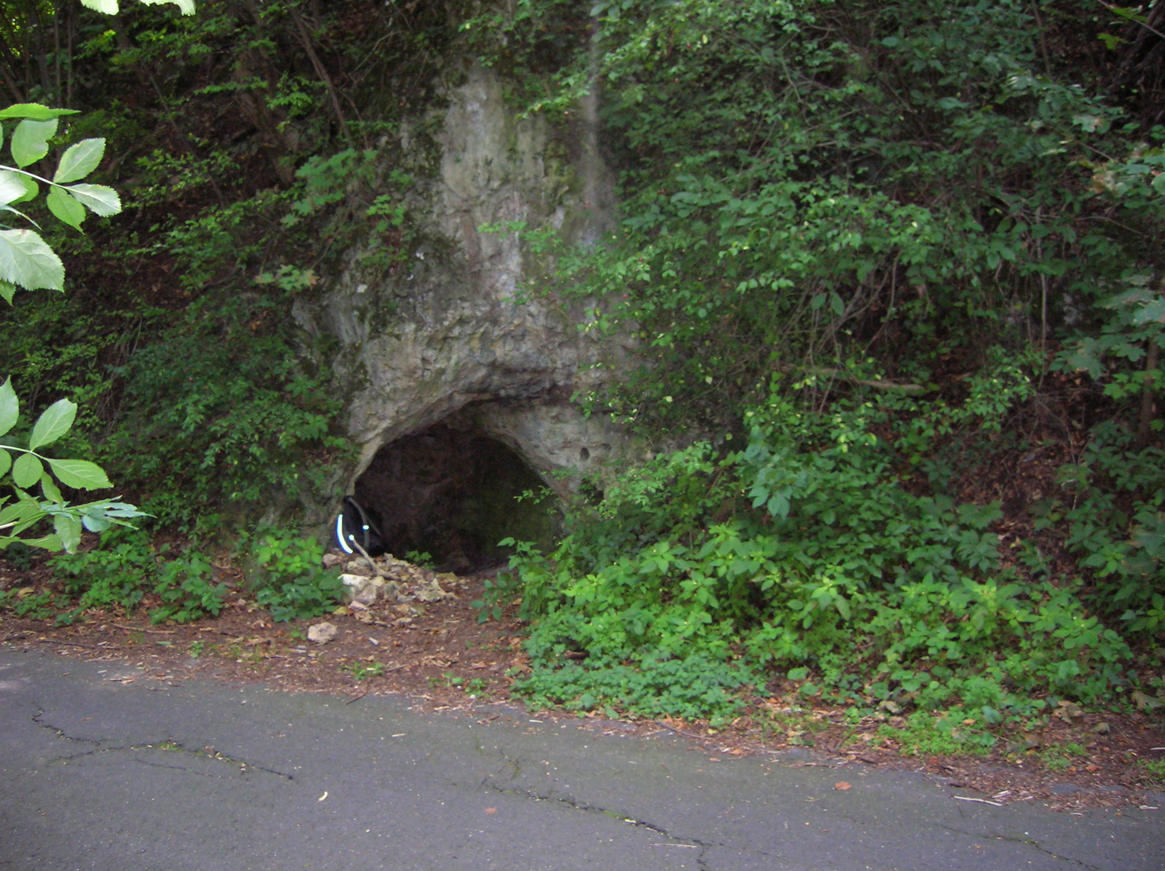 Entrance of the János-hegy Cave